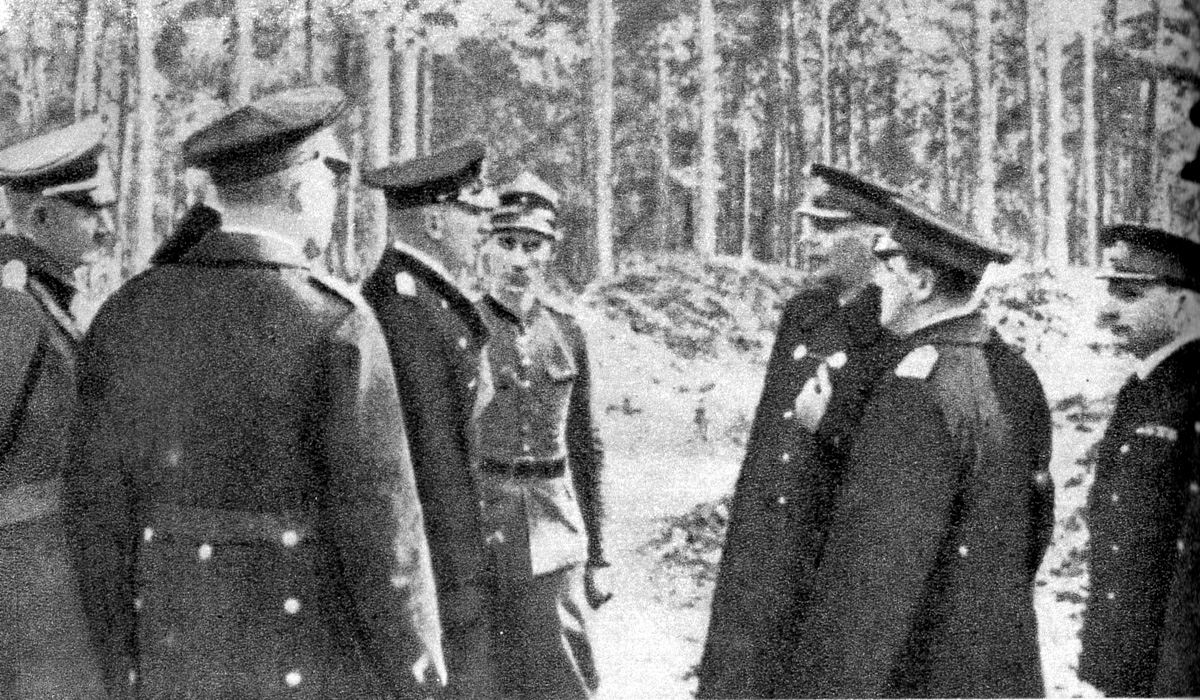 Hel Peninsula surrender, admiral Unrug (R) and admiral Schmundt (L)